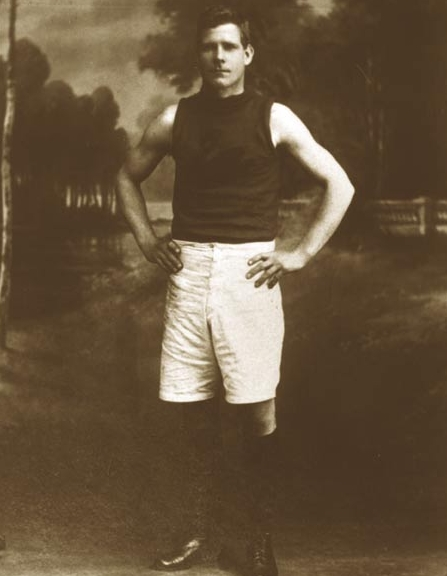 Photograph circa 1923 of Australian rules football player Phillip Matson. Photo sourced from Western Australian Football League Hall of Fame [1].